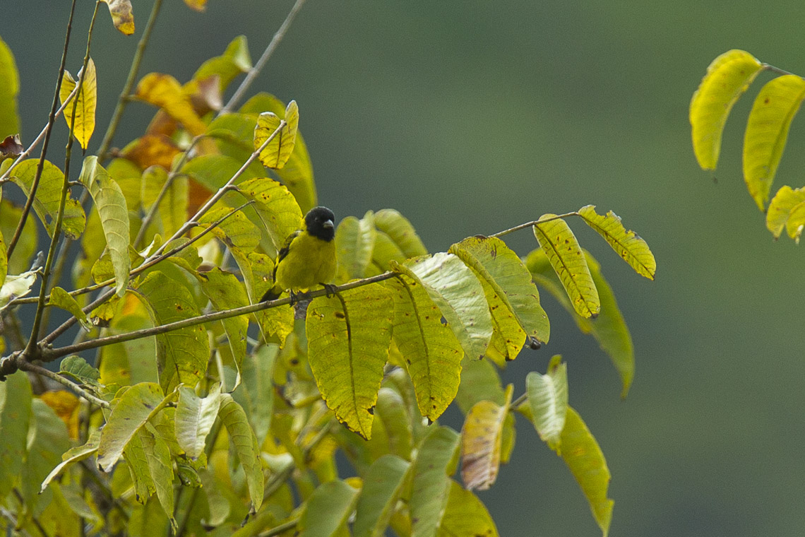 Olivaceous Siskin (Spinus olivaceus), Ecuador